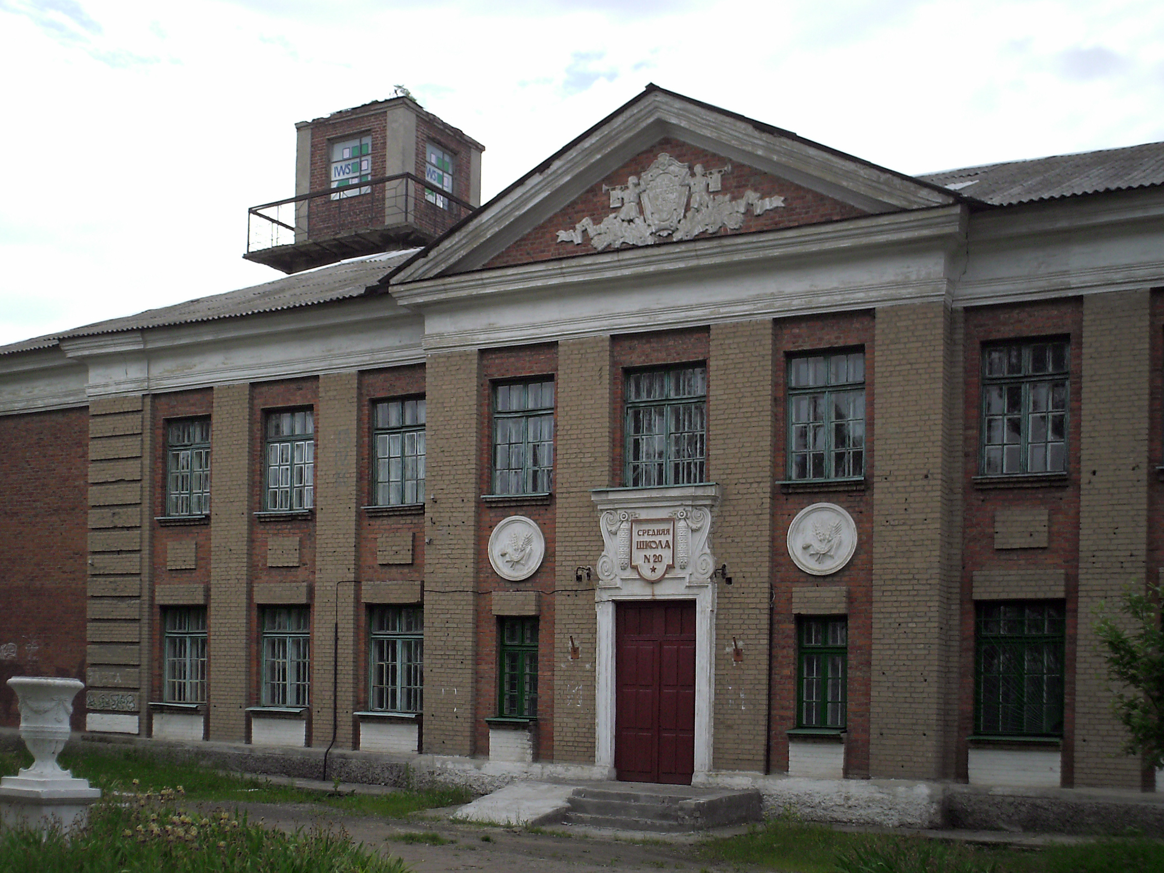 20th school